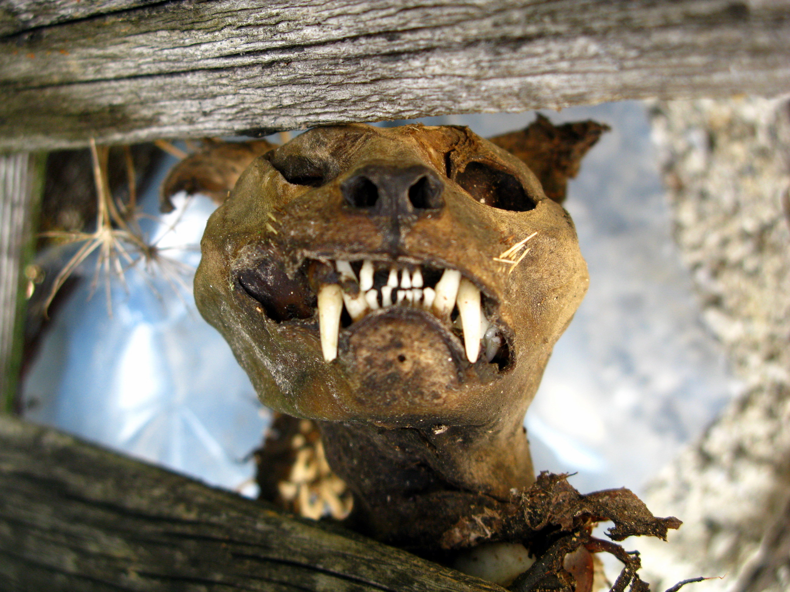 Mummified cat in Moggessa behind a wooden fence at the entrance to a stable (here) in Moggessa di Qua / Moggio Udinese / Friuli-Venezia Giulia / Italy / EU. Above and below the gray, bleached wood slats of the fence. That there is a cat, is based particularly clear from a picture to see where the last remaining cat's claw is (here). It was discussed whether it could also be a dog (here). Brief description: canine teeth, snout, grim view. In the background between the fence and wall, a blue-tinted piece of plastic film. All photos of this animal mummy: Front View, Head detail, Paw in detail, General View, Behind the fence, From behind, Reference.